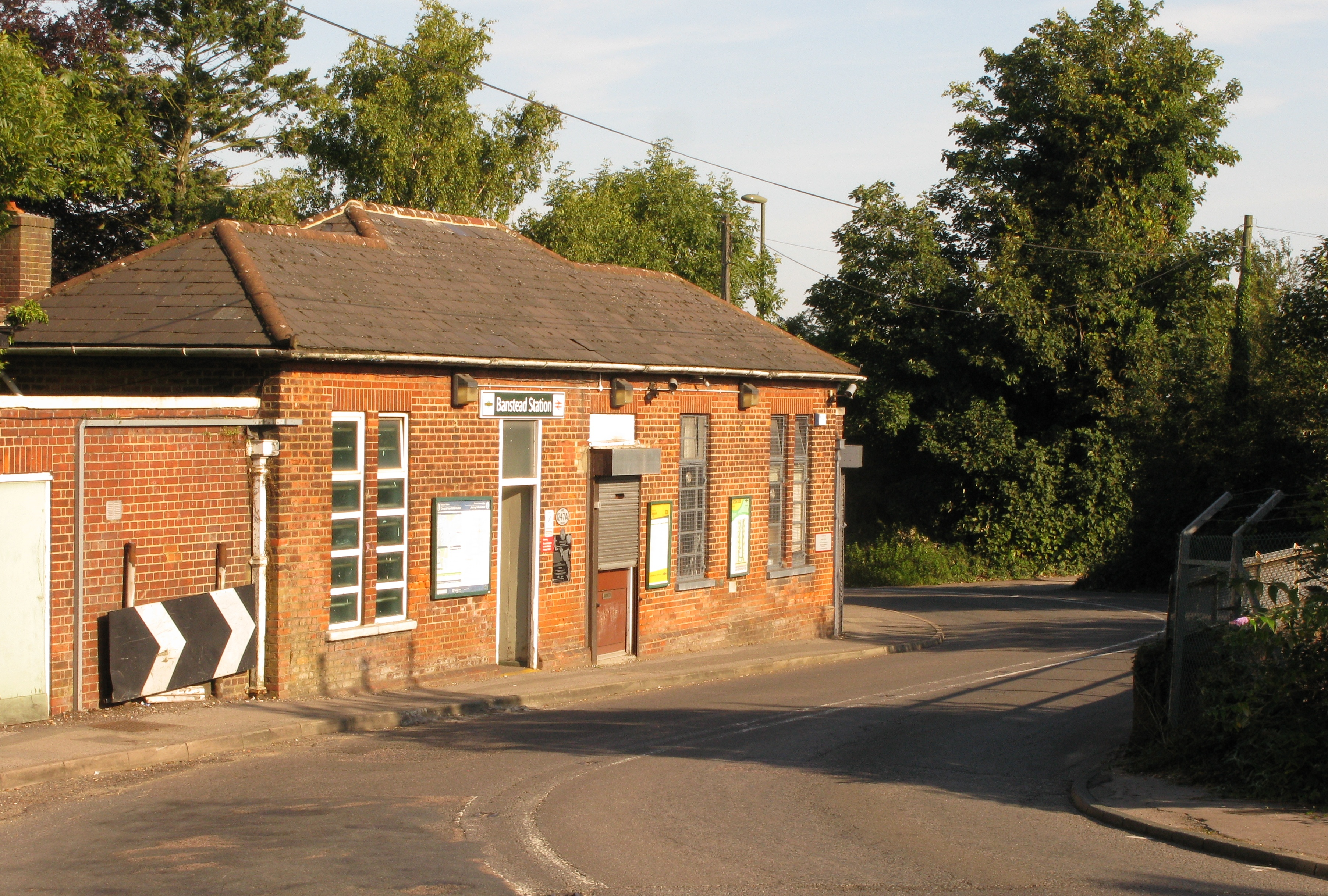 Photo of entrance to Banstead Station, Surrey, England. The building and road in front cross the railway track in the cutting below; the road zig-zags sharply to accomodate the lie of the bridge. The entrance once contained a ticket office and the entrance to two staircases down to the platforms on either side of the rails. Nowadays the station is unmanned, and one staircase has been removed because the line is now single track. Photographer = J.M.C. Hutchinson